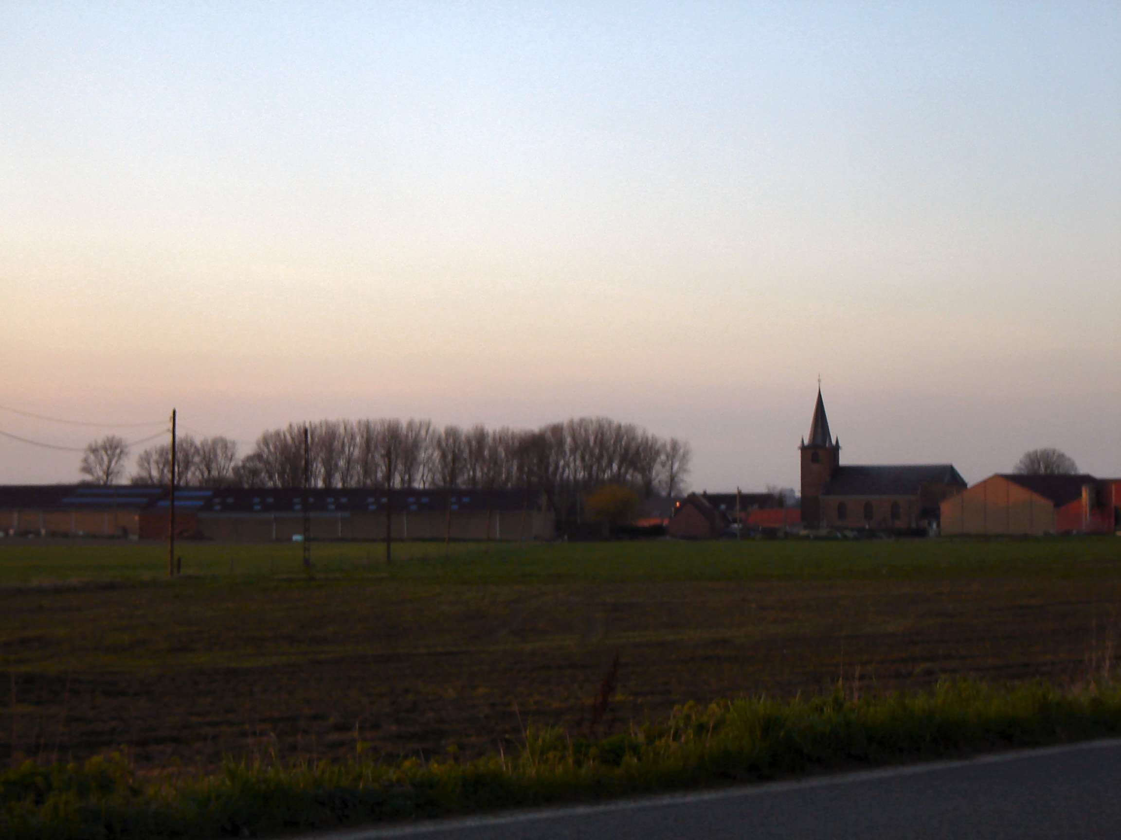 Village of Hertain, with the Eglise Saint-Amand. Hertain, Tournai, Hainaut, Belgium